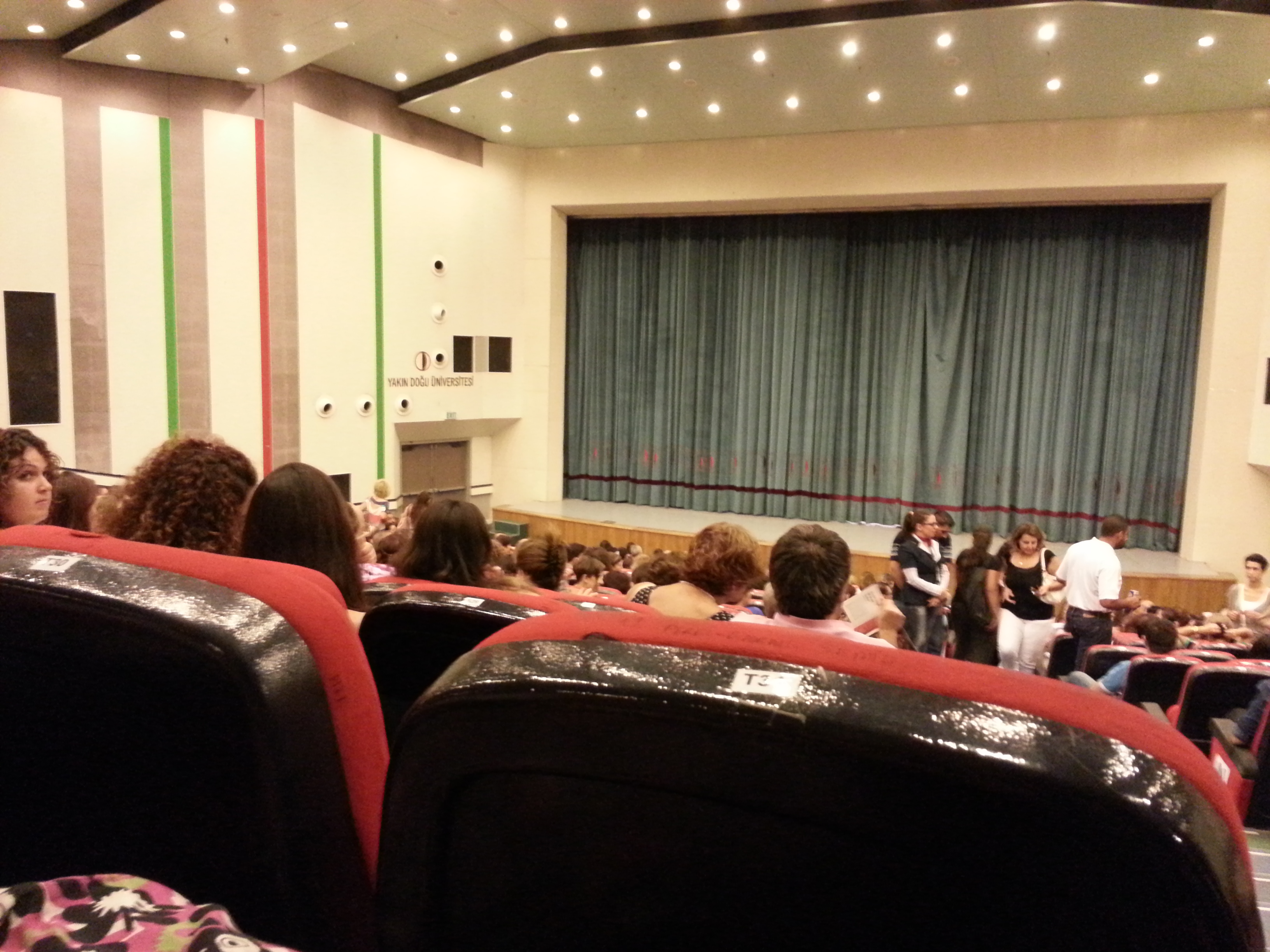 A view from the Cyprus Theater Festival in the Atatürk Culture and Congress Center in Near East University, Northern Cyprus